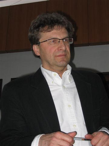 Marek Zaleski (b. 1952), Polish literary critic